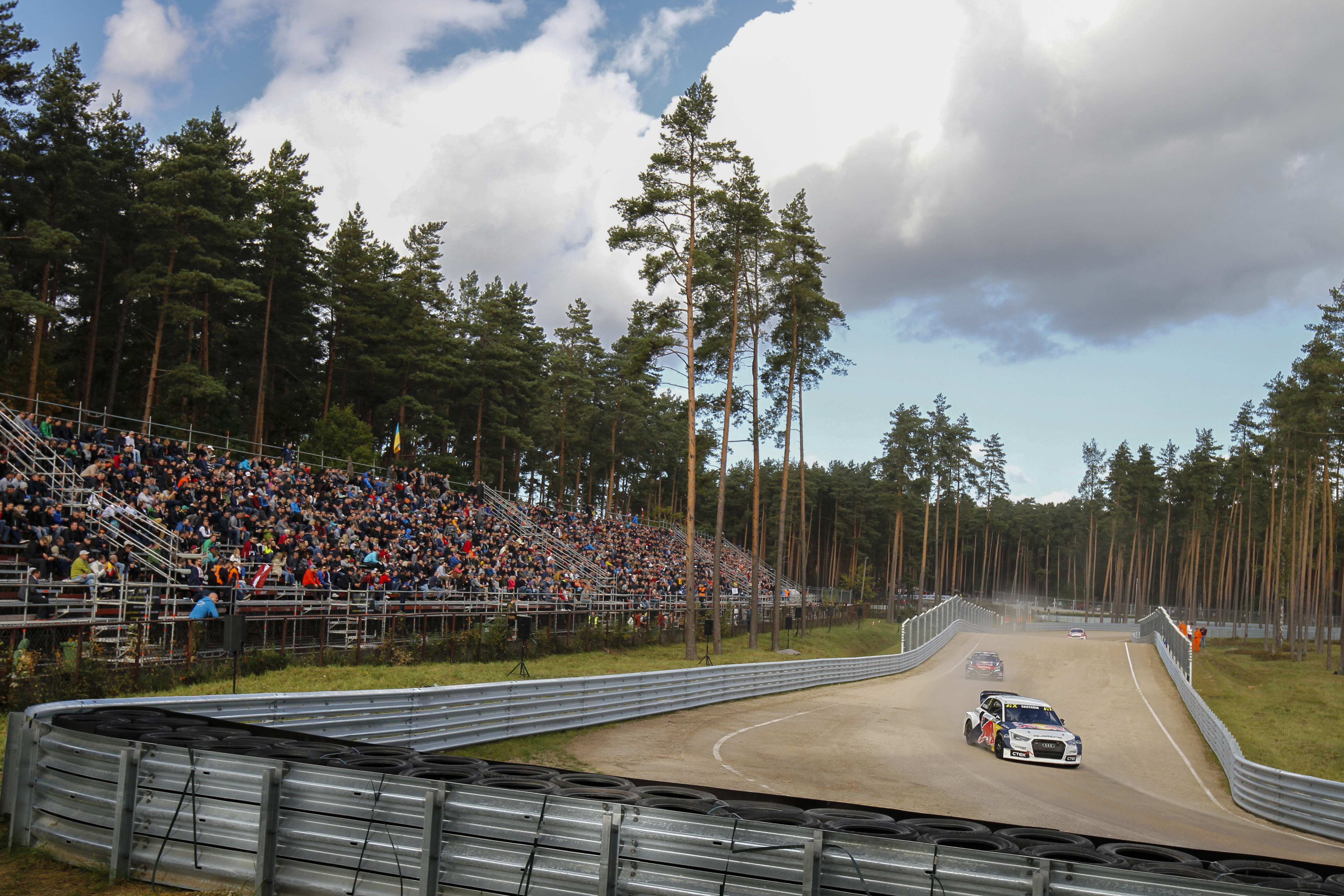 2016 FIA World RX Rallycross Championship / Round 10, Riga, Latvia, October 1-2 2016 // Worldwide Copyright:Tony Welam/EKS/McKlein